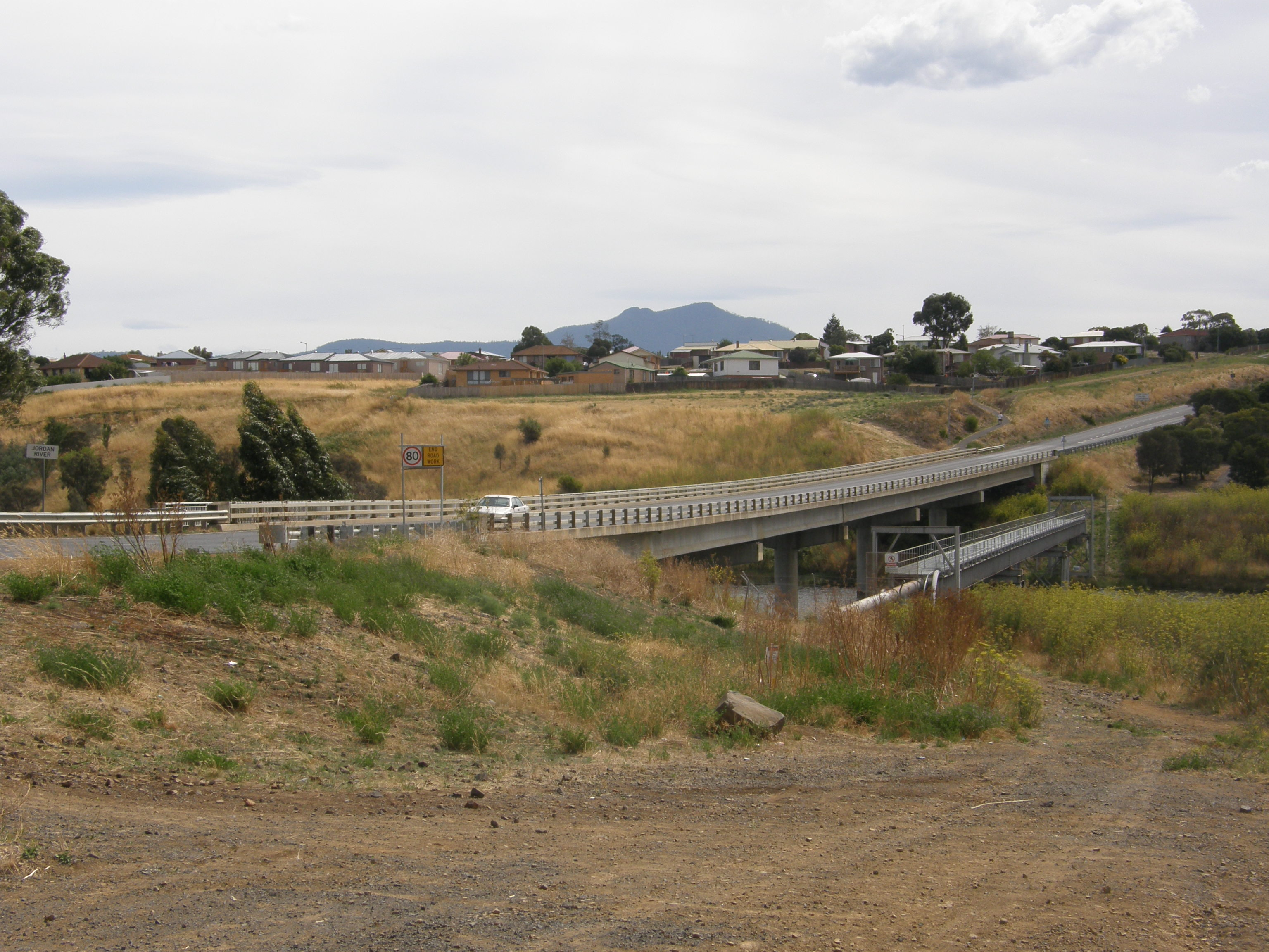 Picture of the Jordan River Bridge at Bridgewater. Taken on 2010-02-20